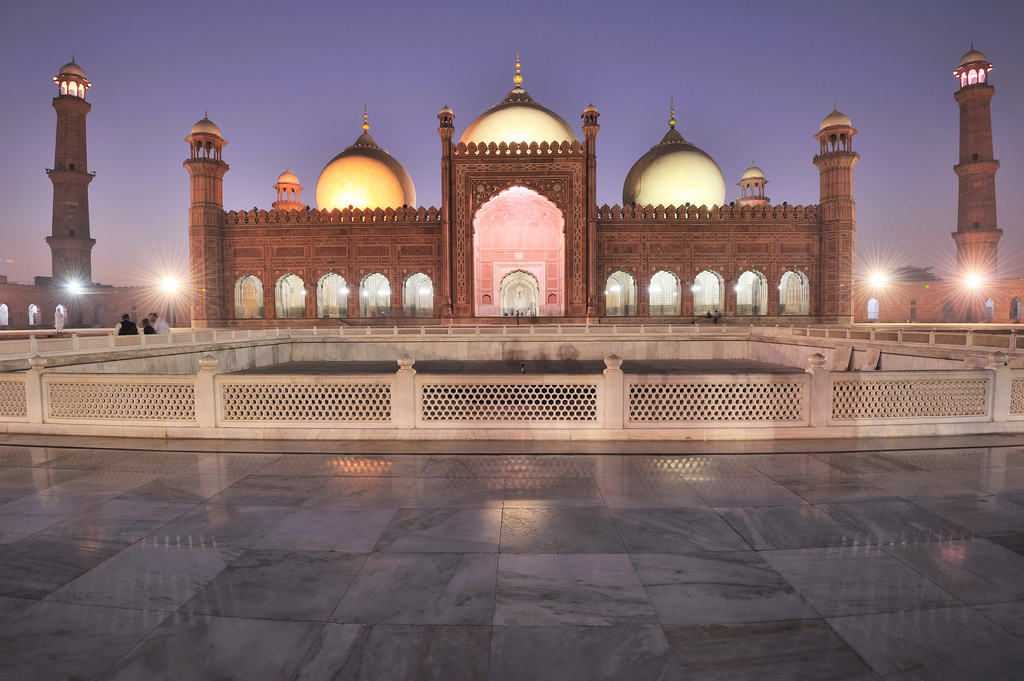 View of the Badshahi Mosque in Lahore, Pakistan